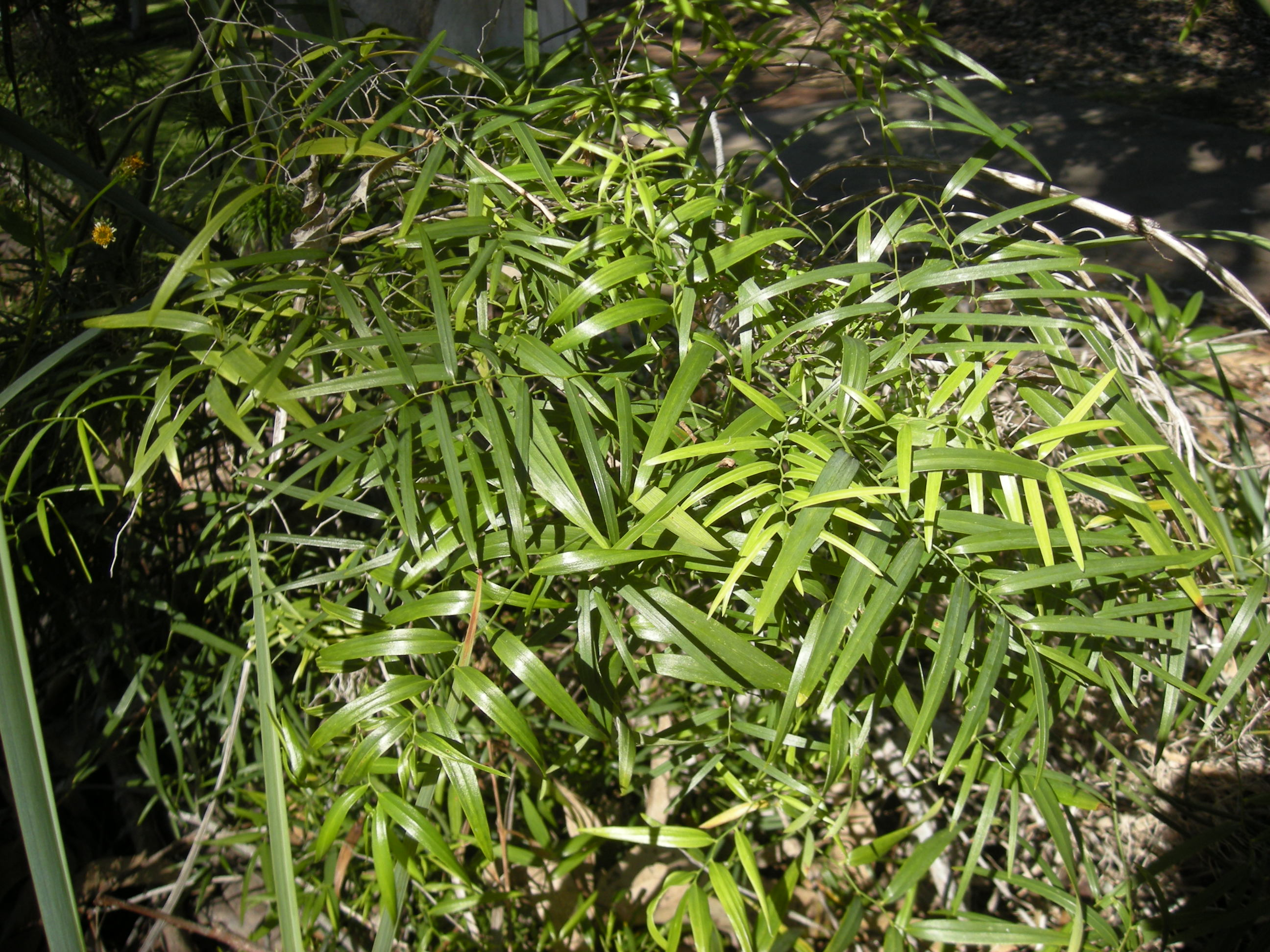 Eustrephus latifolius foliage